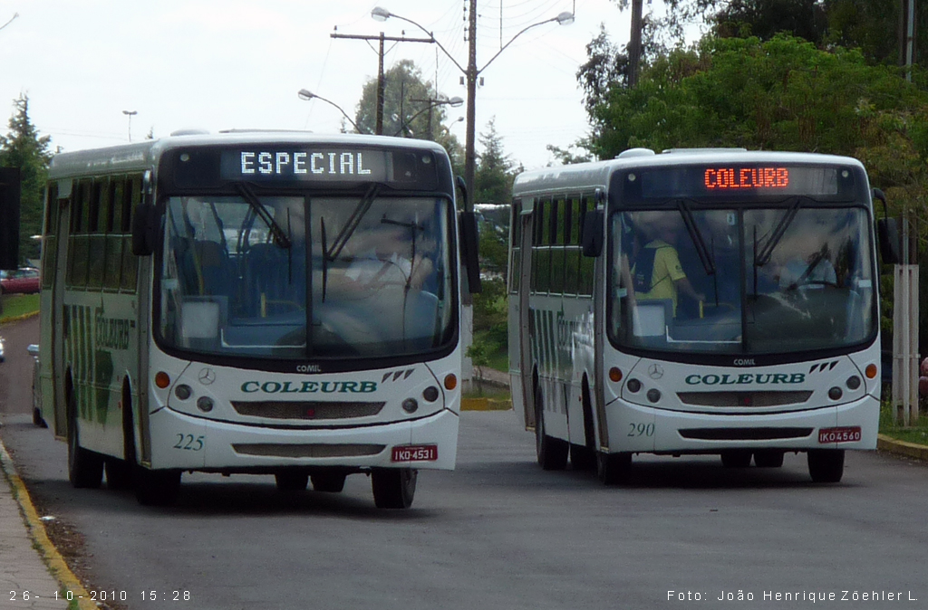 Two Comil Svelto IV buses (#225, #290, built 2002) with Mercedes-Benz OF-1721 chassis in Passo Fundo, Rio Grande do Sul, Brazil. Built 2002, COLEURB Coletivos Urbanos Ltda. operator.